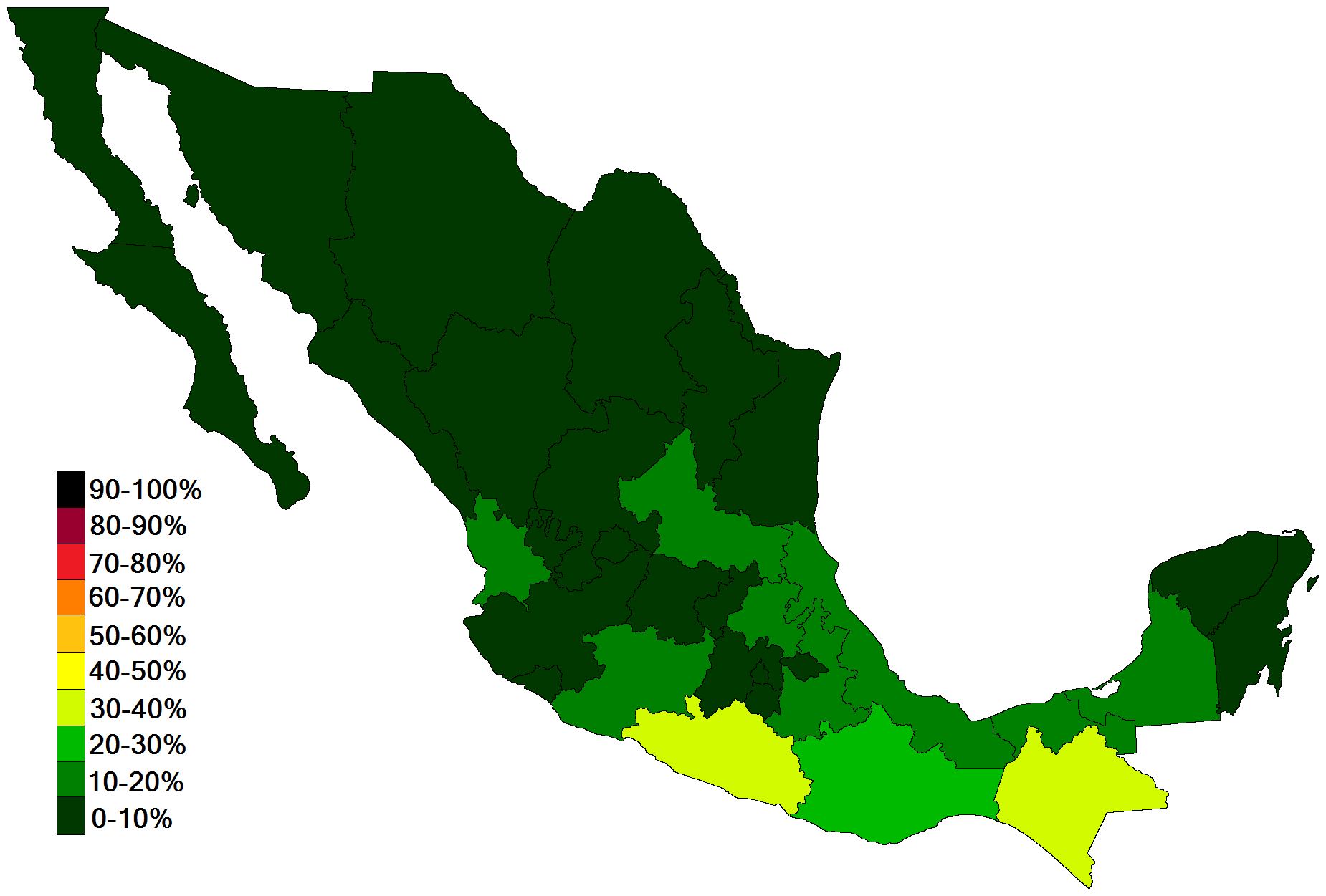 Map showing the percentage of people living in extreme poverty under the Mexican poverty line in 2012.